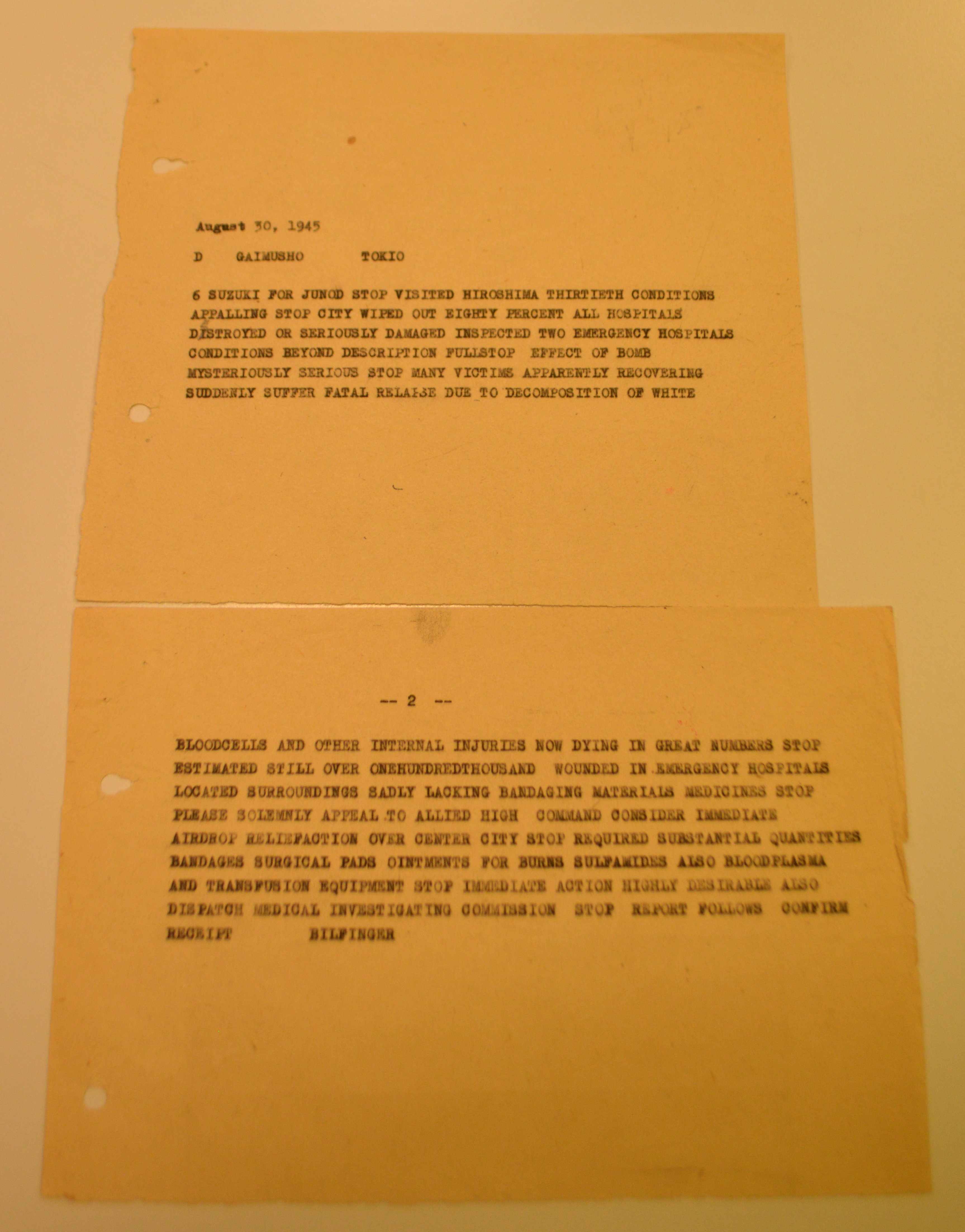 A telegram sent by Fritz Bilfinger, delegate of the International Committee of the Red Cross (ICRC), on 30 August 1945 from Hiroshima to Marcel Junod at the ICRC office in Tokyo. It has been preserved at the ICRC archives in Geneva and reads: "Visited Hiroshima thirtieth, conditions appalling stop city wiped out, eighty percent all hospitals destroyed or seriously damaged; inspected two emergency hospitals, conditions beyond description full stop effect of bomb mysteriously serious stop many victims, apparently recovering, suddenly suffer fatal relapse due to decomposition of white blood cells and other internal injuries, now dying in great numbers stop estimated still over one hundred thousand wounded in emergency hospitals located surroundings, sadly lacking bandaging materials, medicines stop."